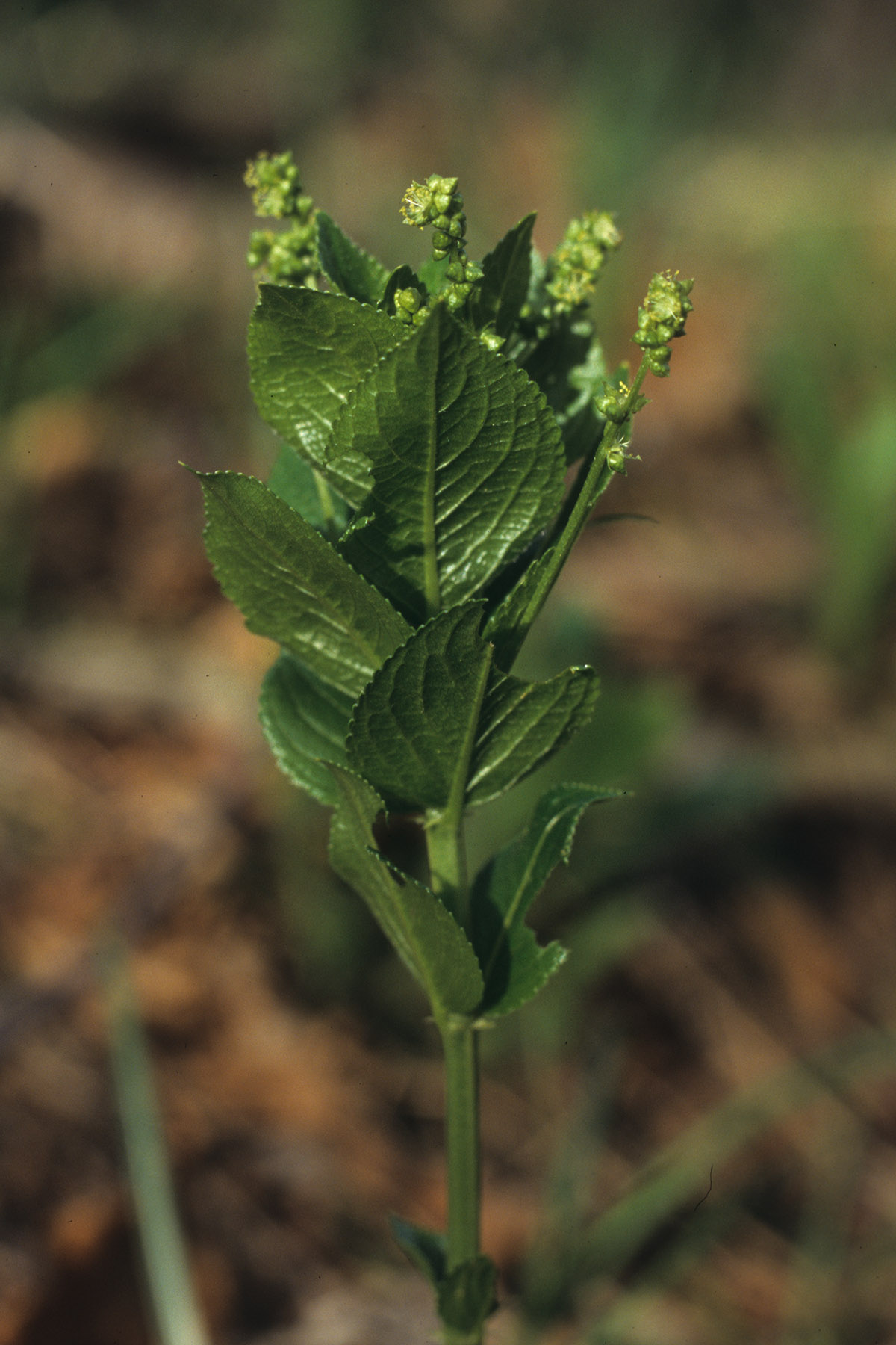 Mercurialis ovata Gorenje, Slovenia